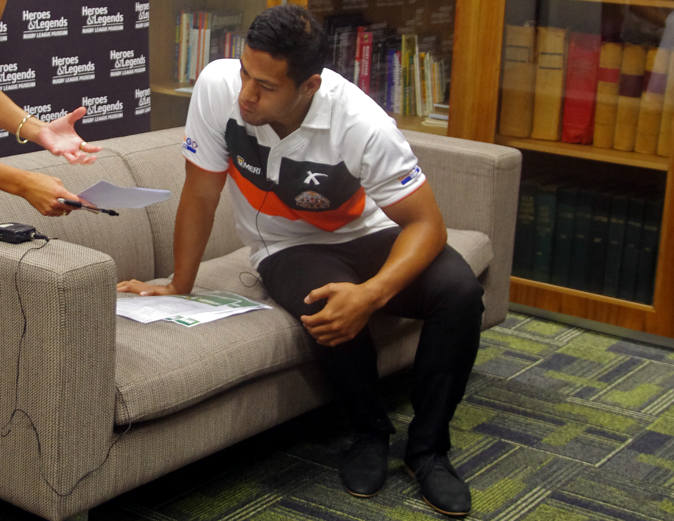 David Nofoaluma